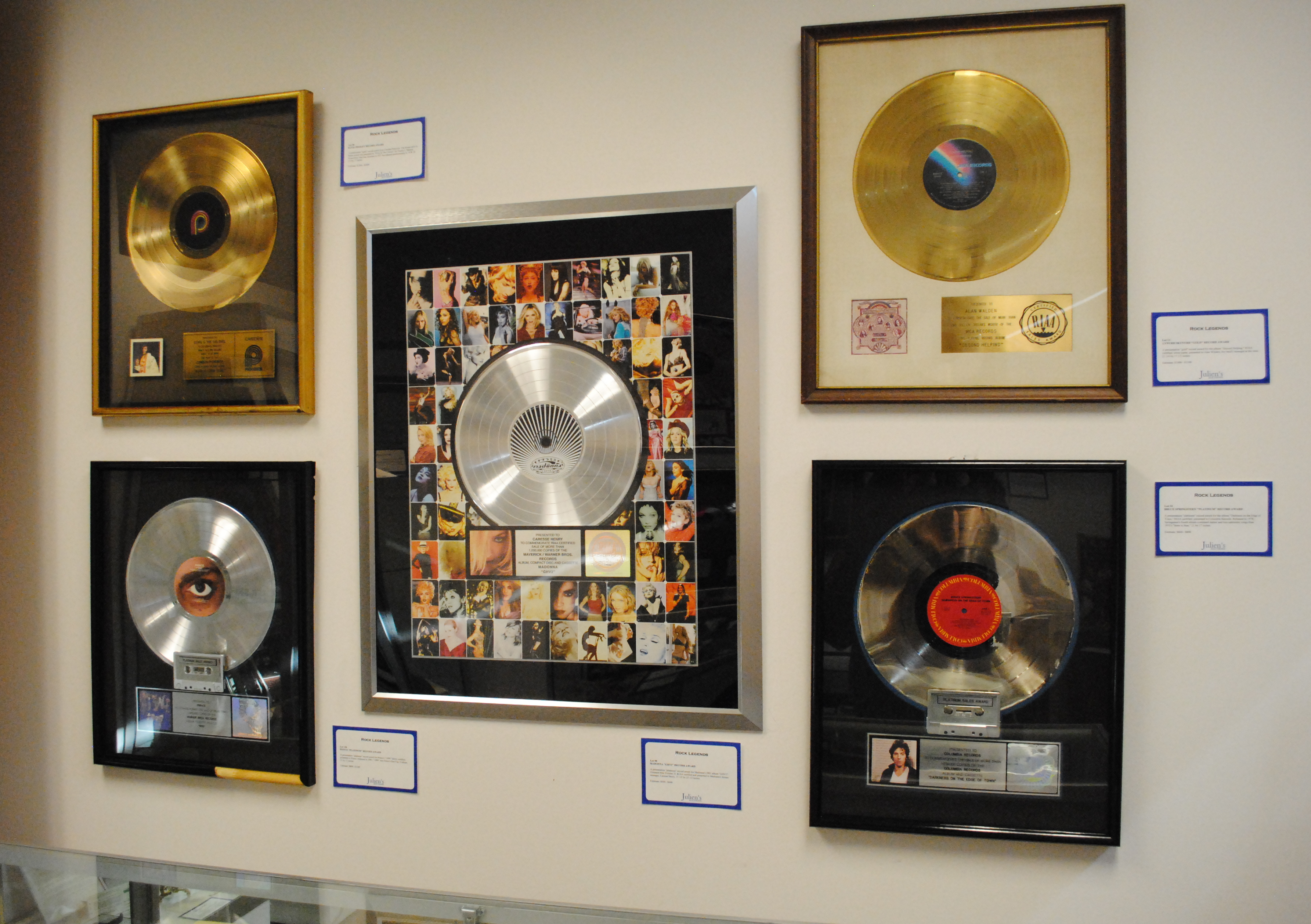 Platinum records, Prince, Bruce Springsteen, Julien's Auctions Preview 2011-03-08